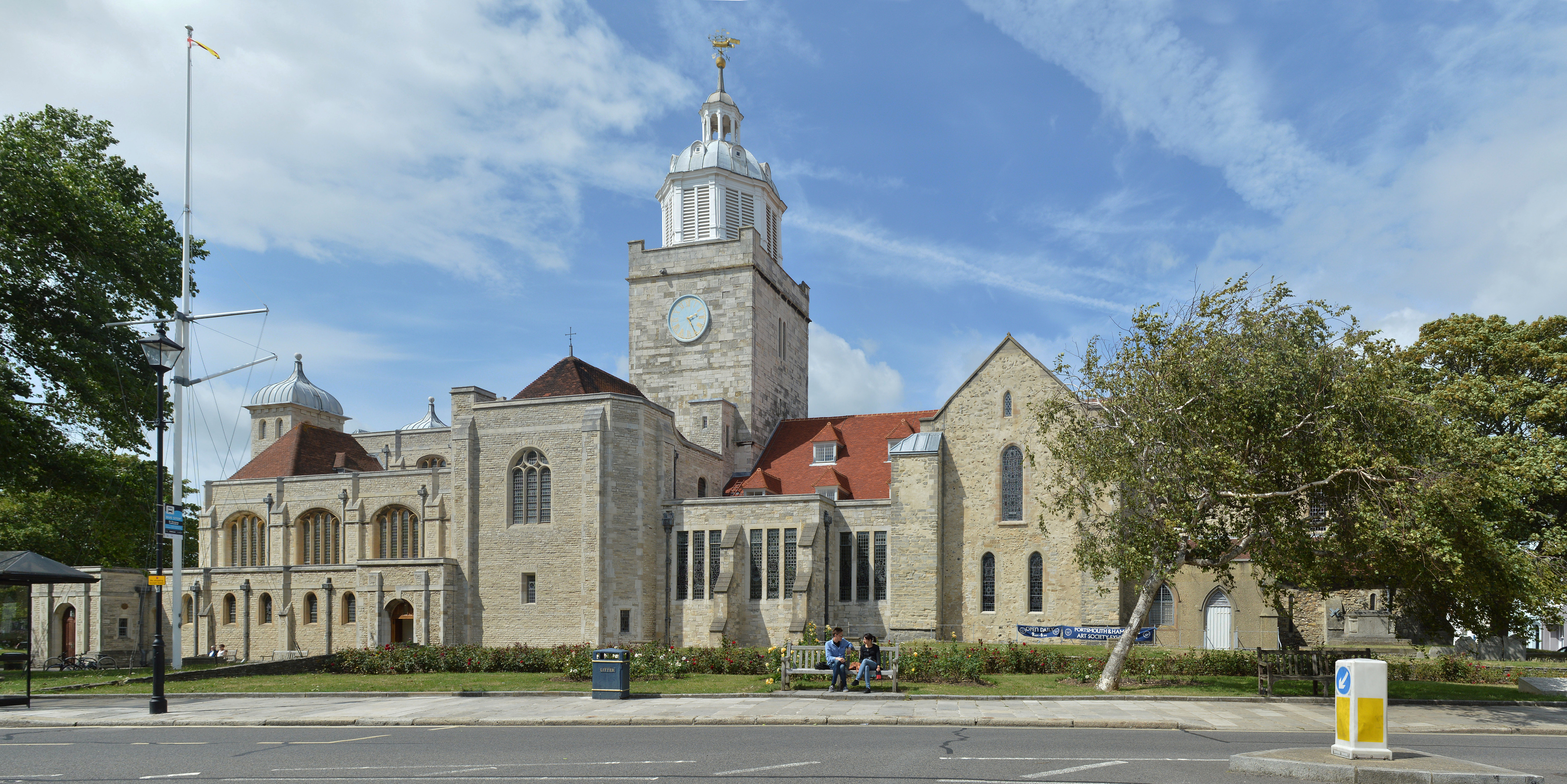 Cathedral Church of St Thomas of Canterbury (Portsmouth Cathedral) Wikidata has entry Q1573962 with data related to this building.